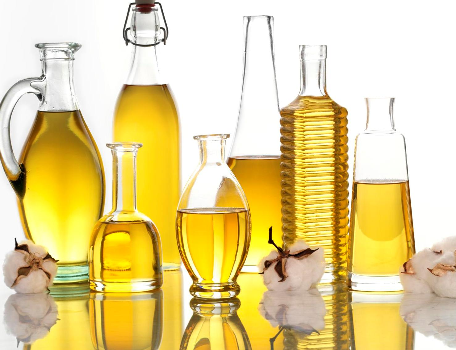 Cottonseed oil - America's original trans free vegetable oil.